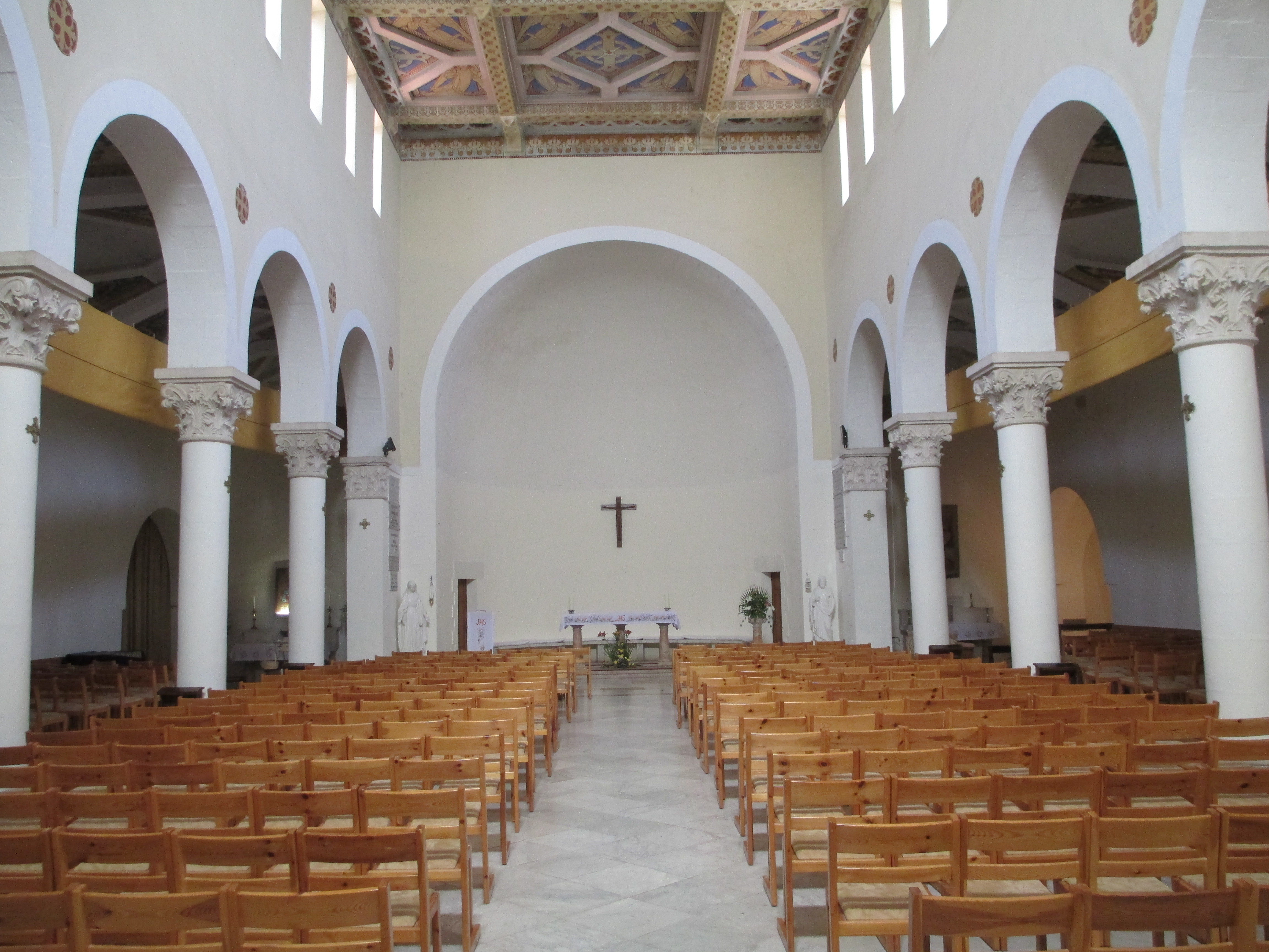 Lady of the ark church in Abu Gosh